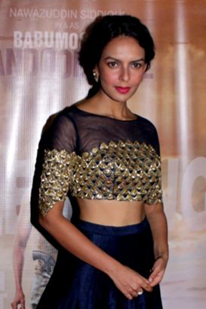 Bidita Bag